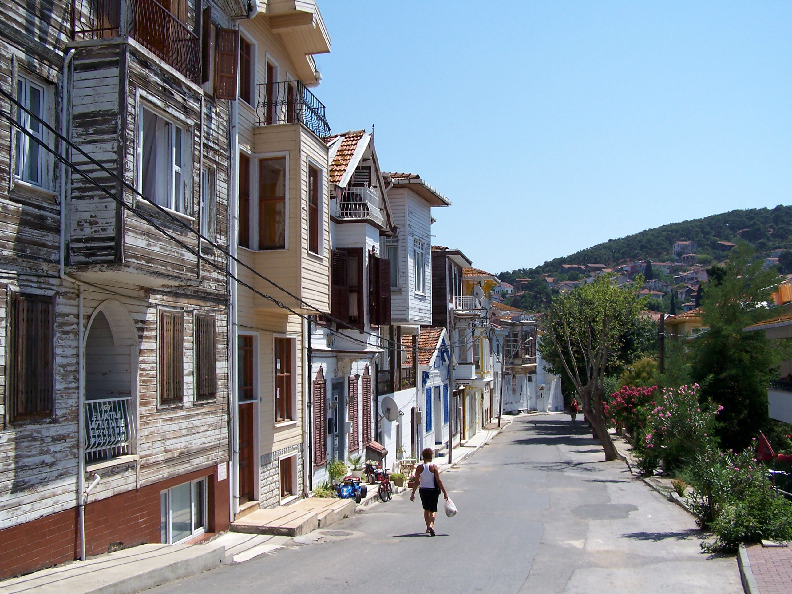 Typical street in Heybeliada, Turkey